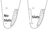 LaGG-3 hard vs slat wings